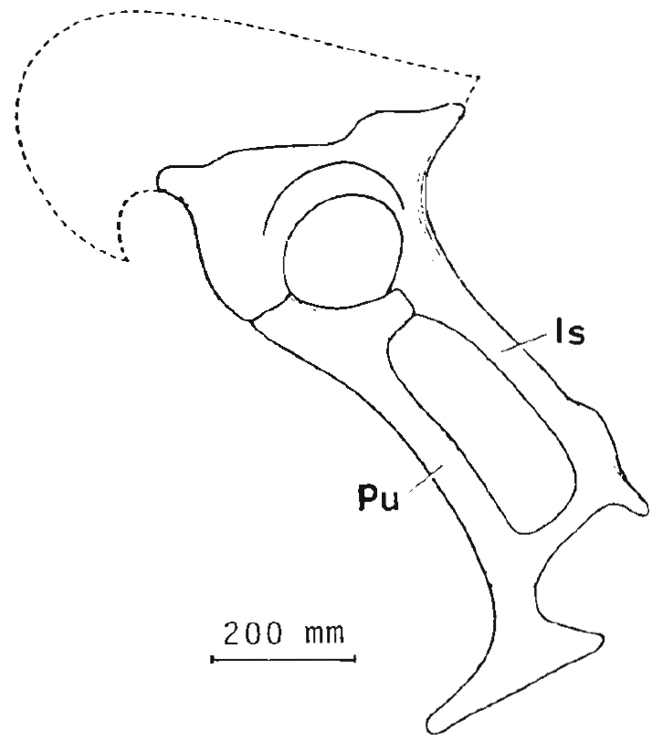 Enigmosaurus mongoliensis (originally Segnosaurian indet.) holotype (GIN 100184); Khara Khutul, SE Mongolia, Bayan Shireh svita, Upper Cretaceous; left lateral view of pelvis, ilium partly reconstructed.